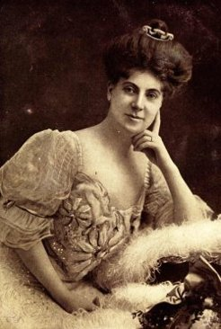 Ada Jemima Crossley (1871-1929), by Talma & Co, 1901-05 La Trobe Picture Collection, State Library of Victoria, H37081/23 dead link